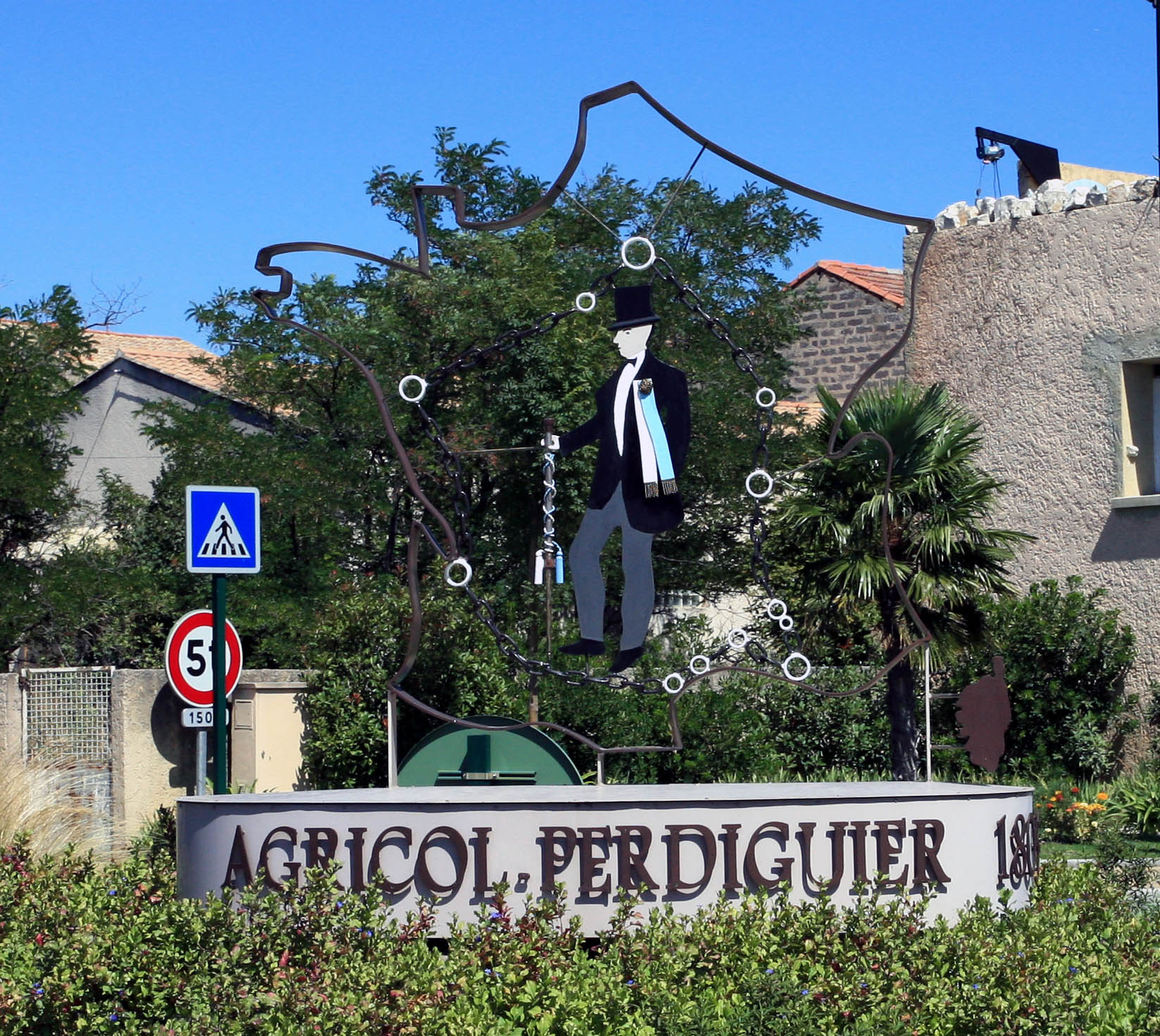 Town of Morières-lès-Avignon in Vaucluse, France